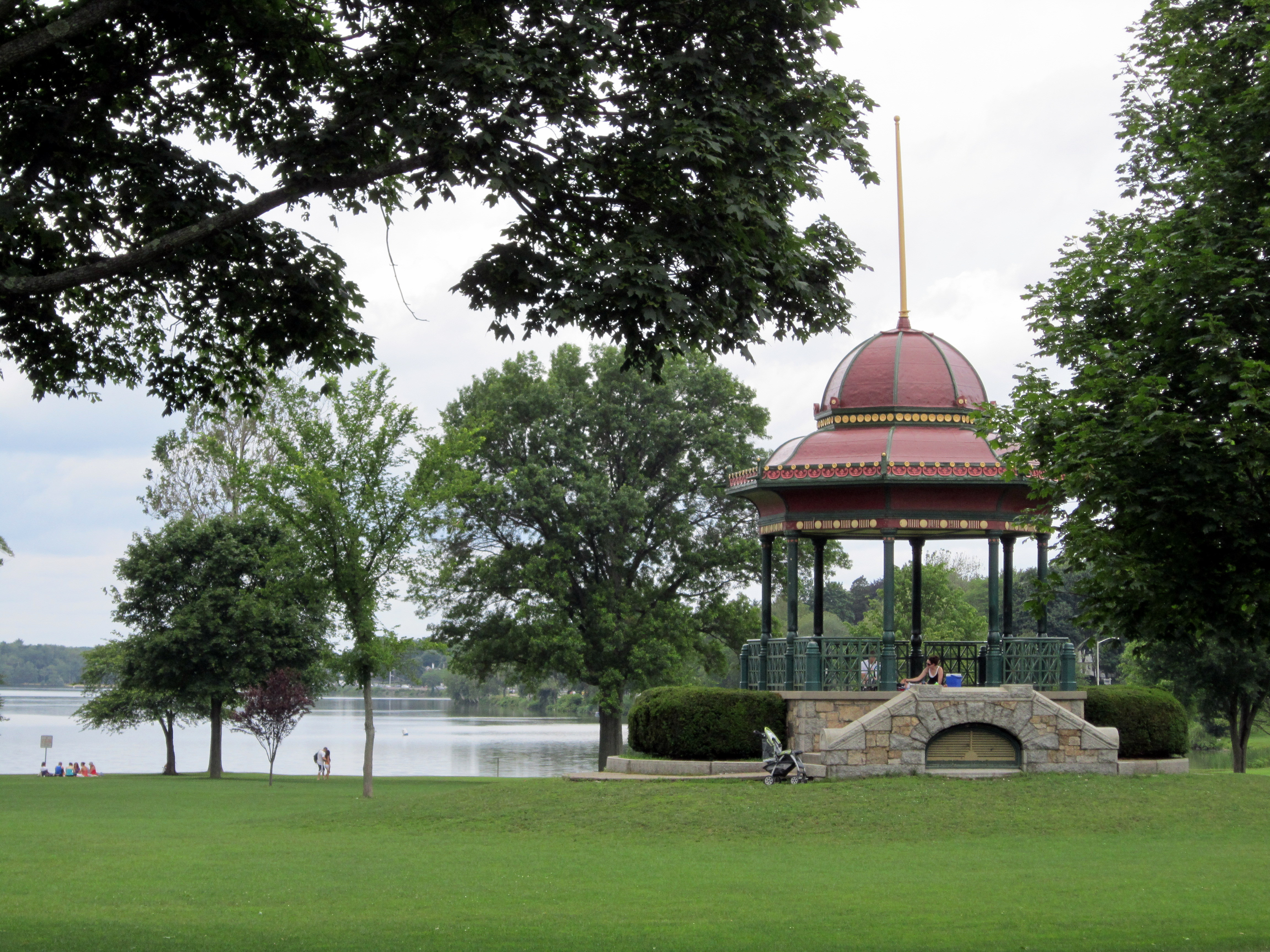 Wood and granite structure built in 1885 on the Lower Common in Wakefield, Massachusetts, overlooking Lake Quannapowitt